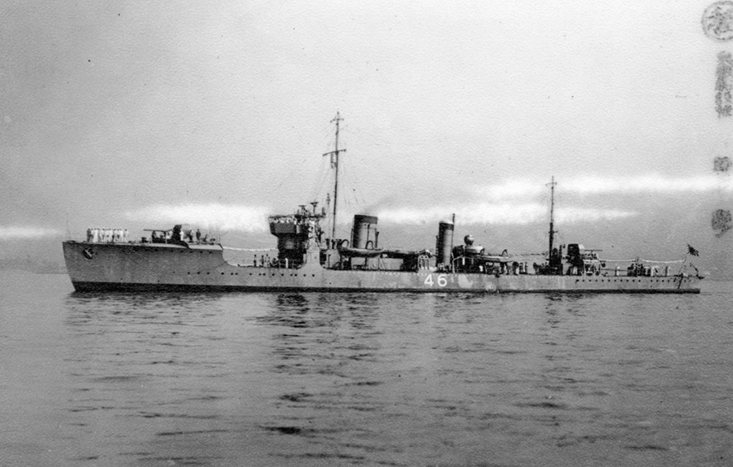 No.46 patorol boat of Imperial Japanese Navy, ex-DD Yugao.